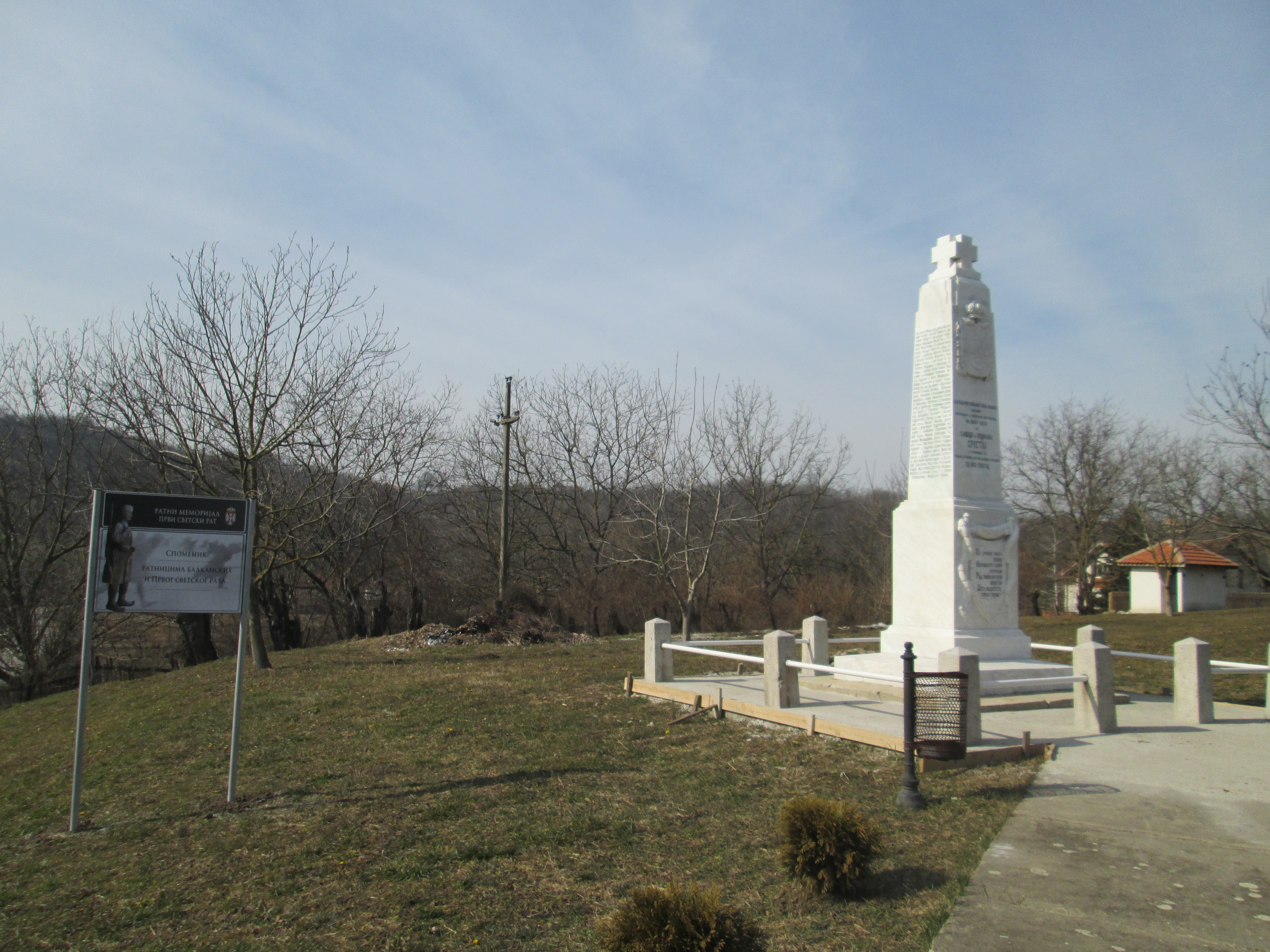 Monument to the fallen soldiers in Balkan wars and WWI from 1912-1919. Српски (ћирилица): Споменик палим борцима у балканским ратовима и Првом светском рату (1912-1919)